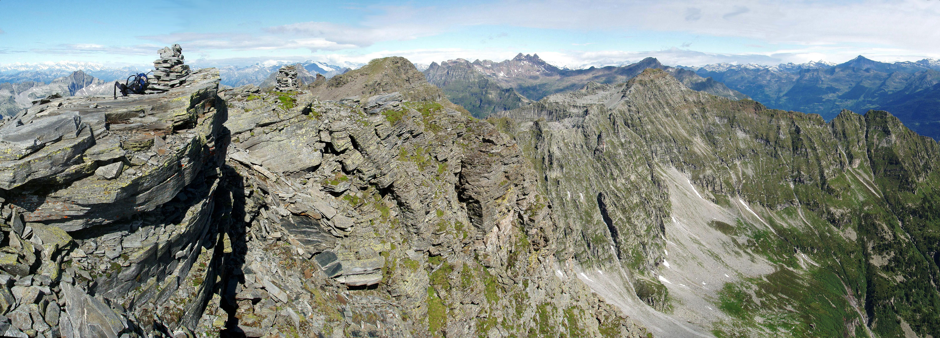 On the Via Alta della Verzasca (Switzerland / Ticino). View from Pizzo Cramosino (2.718 m) to Madom Gröss (2.7046 m) and Pizzo di Mezzodi (2.707 m). In the background the Pennine Alps, Basodino and Pizzo Barone. Compound work of 5 photographs.